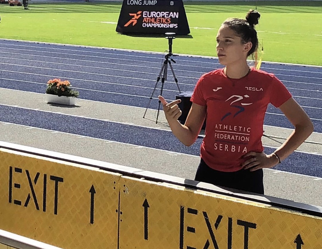 European Championships in Berlin